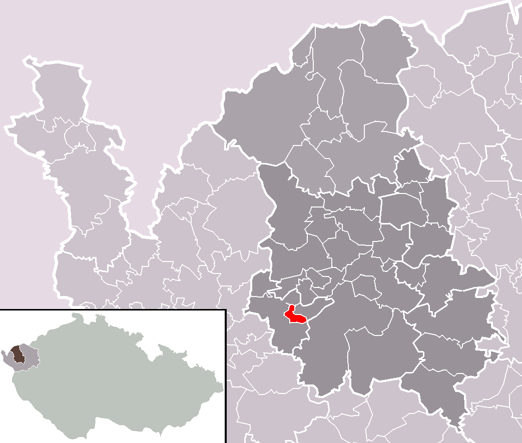 Location of Libavské Údolí municipality within Sokolov District and administrative area of Sokolov as a Municipality with Extended Competence.